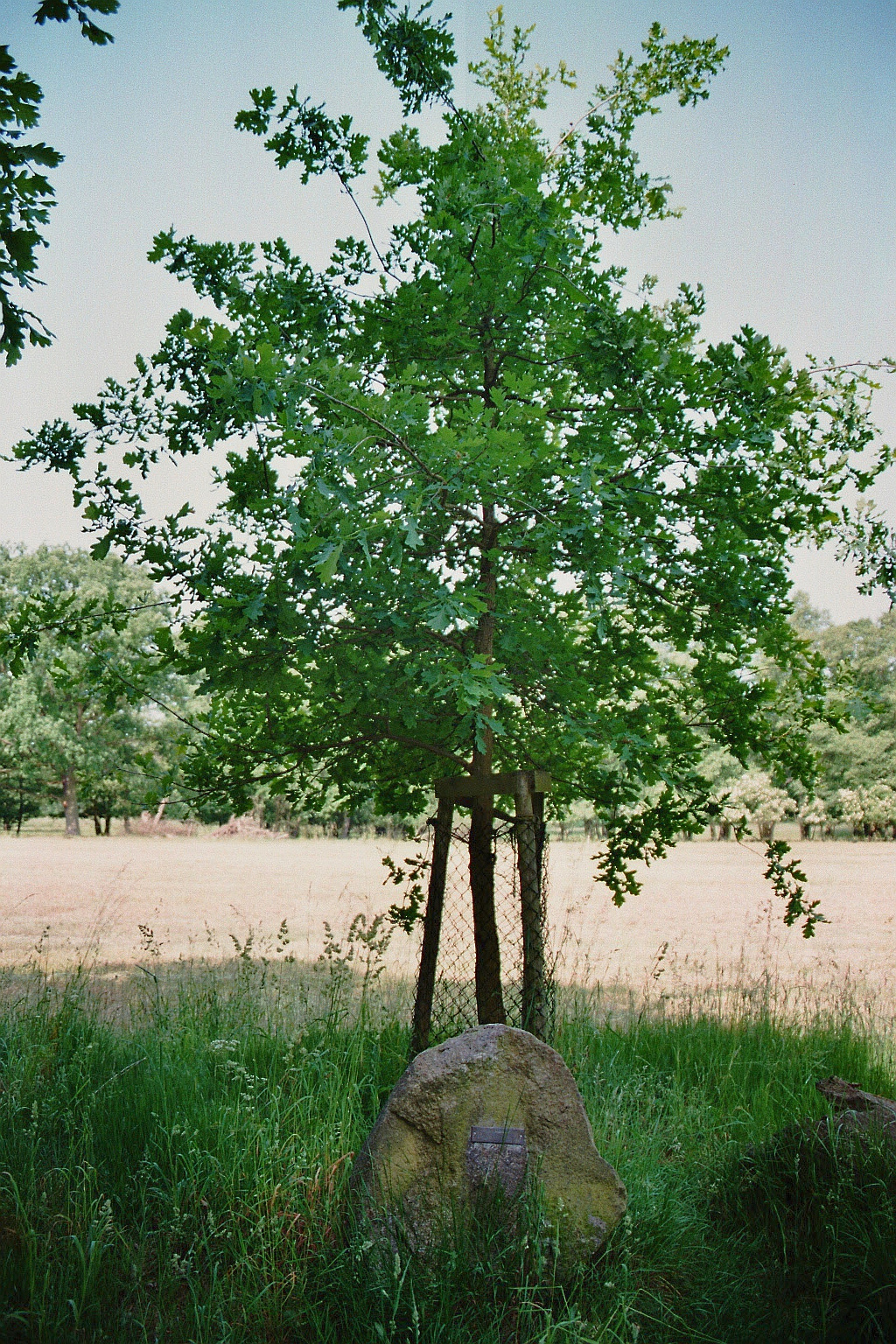 Florentinchen, a young oak planted in 2000 beside the dead Florentine Oak (Florentine-Eiche) in the Byttna near Straupitz, Landkreis Dahme-Spreewald, Brandenburg, Germany.